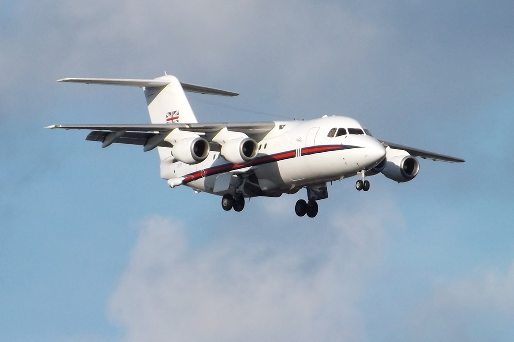 ZE701 BAe 146 CC.2 Royal Air Force (Queen's Flight) landing Glasgow June 2013